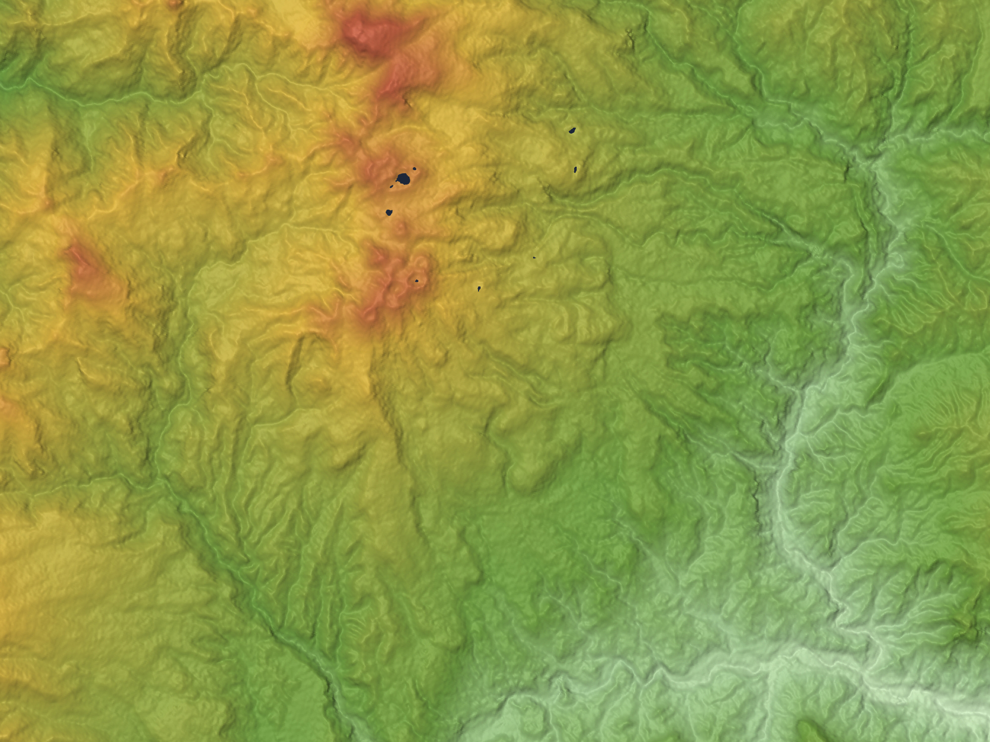 Mount Kusatsu-Shirane is a volcano in Gunma Prefecture, Japan.